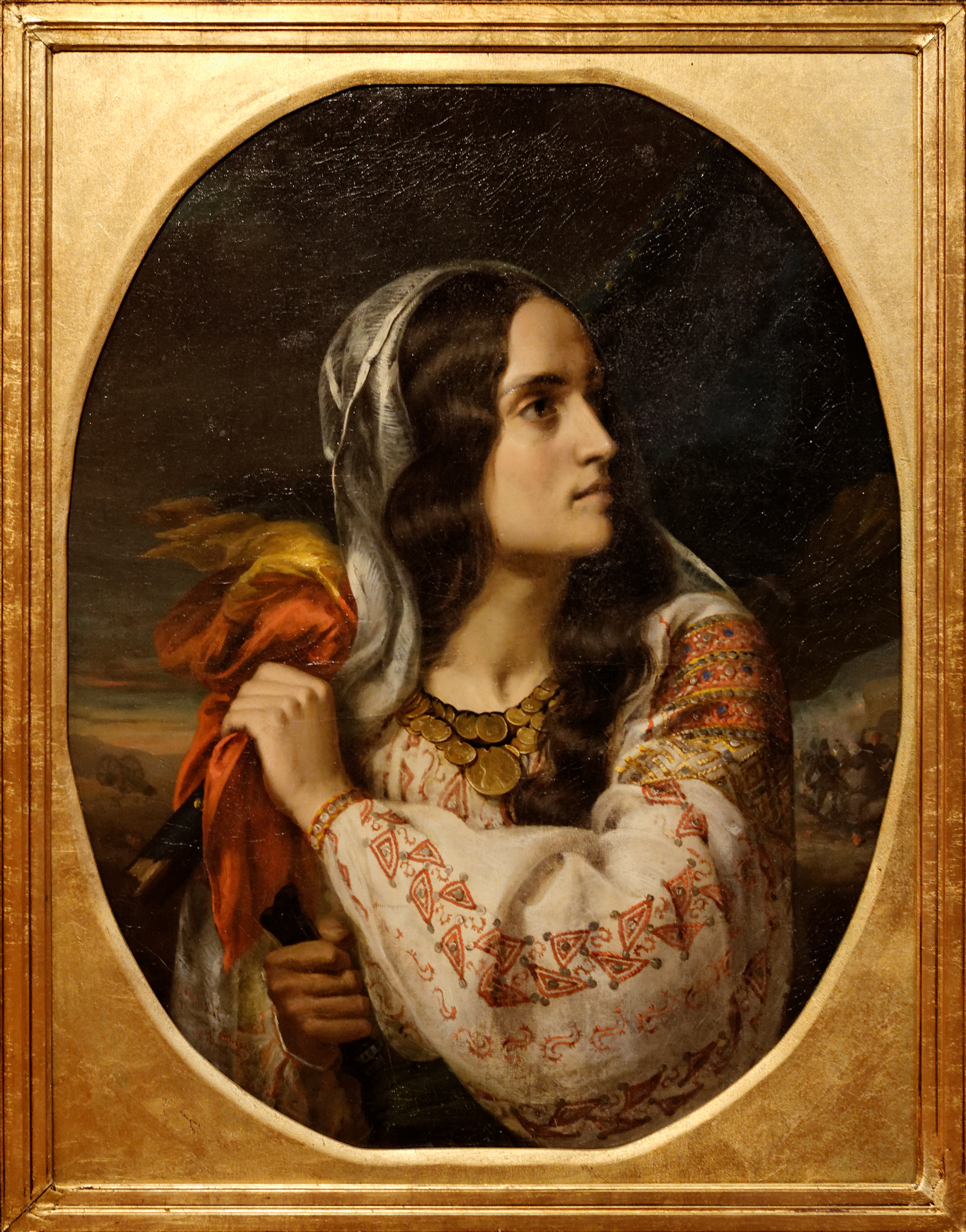 Revolutionary Romania (portrait of Maria Rosetti)